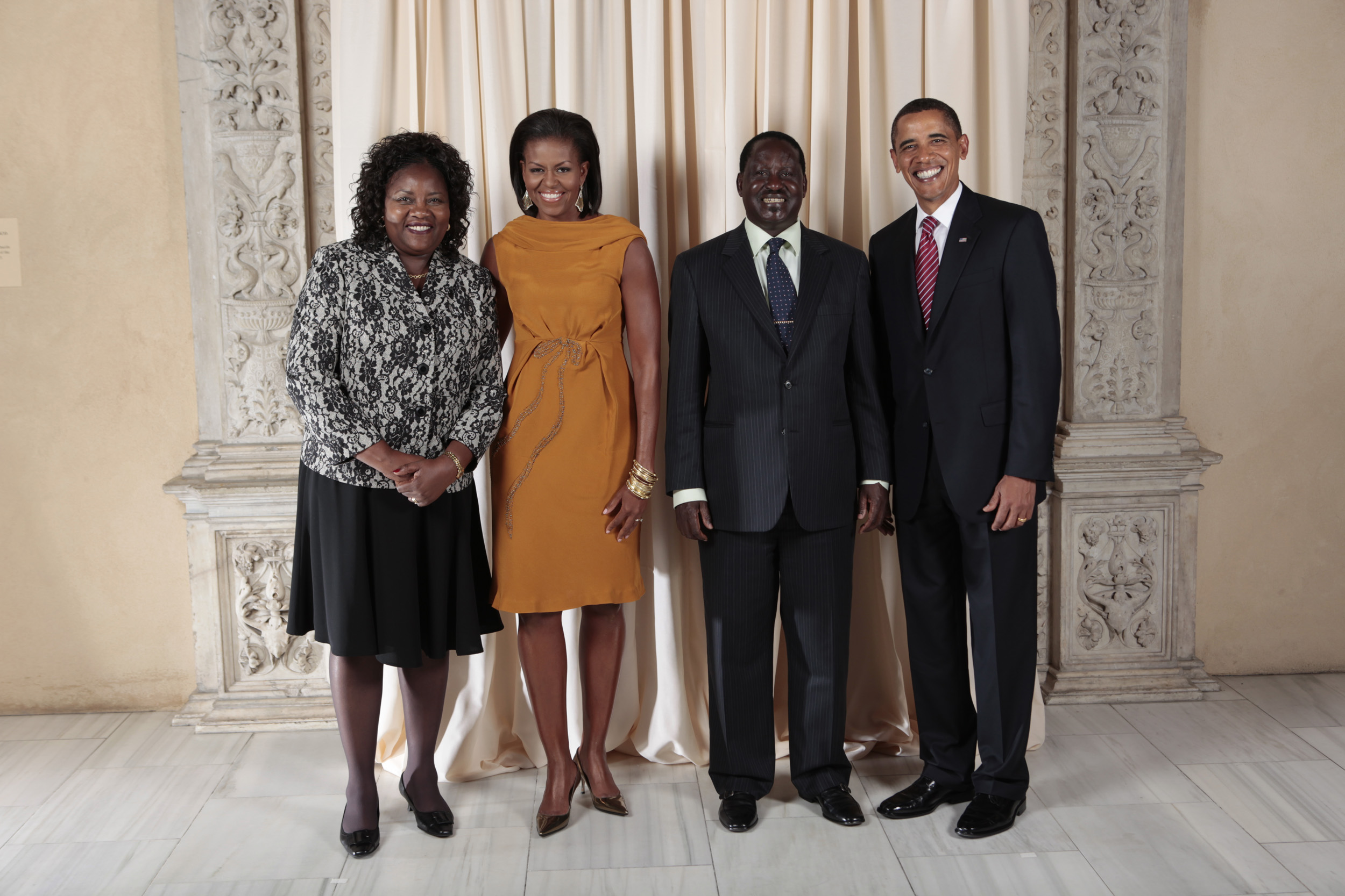 President Barack Obama and First Lady Michelle Obama pose for a photo during a reception at the Metropolitan Museum in New York with Raila Amolo Odinga, Prime Minister of the Republic of Kenya, and his wife, Mrs. Ida Odinga.